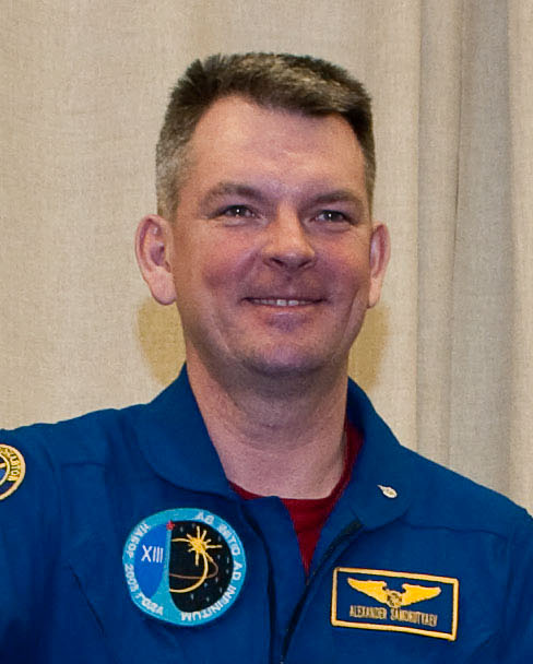 Russian cosmonaut Alexander Samokutyayev